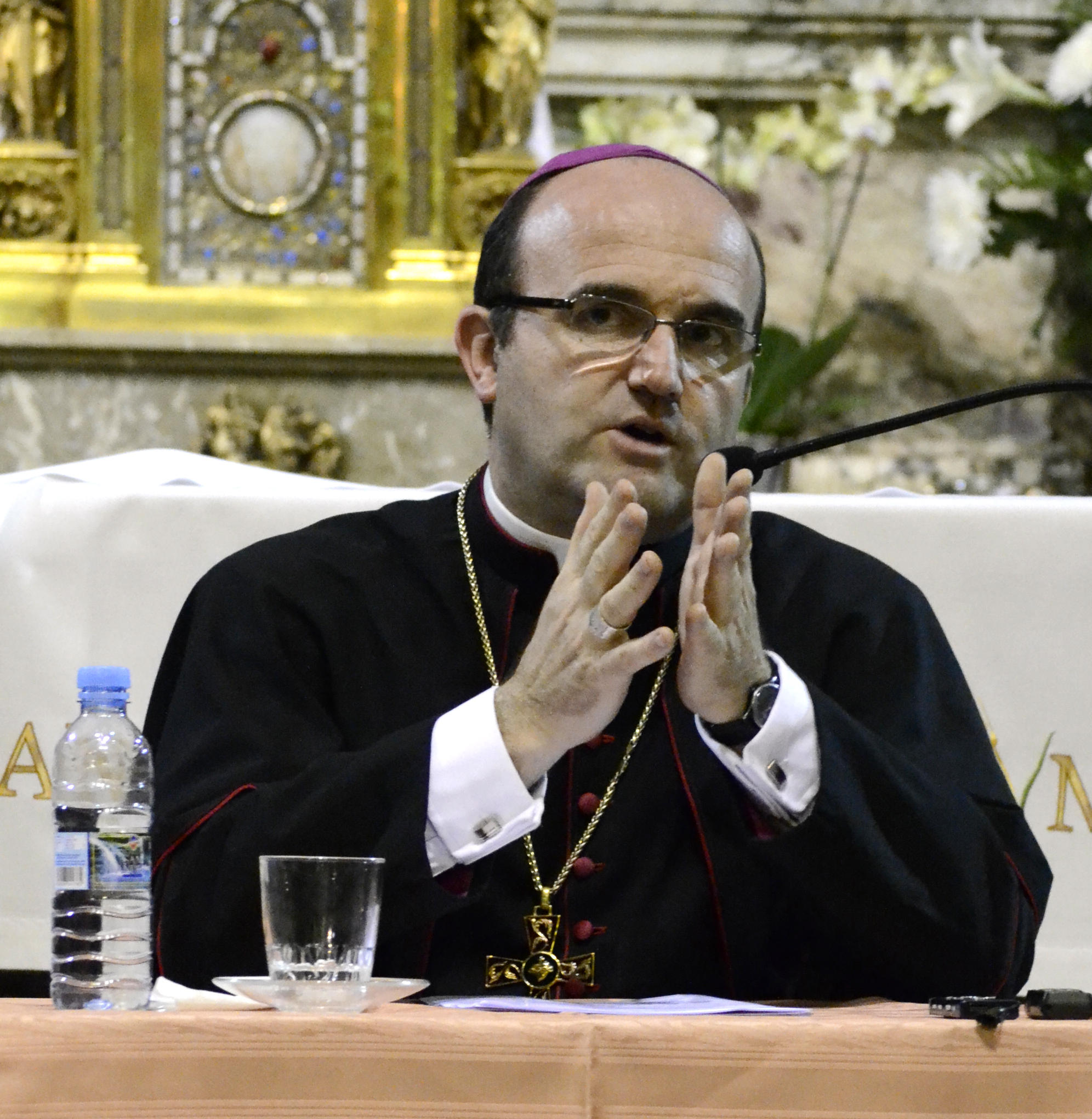 José Ignacio Munilla, Spanish bishop.